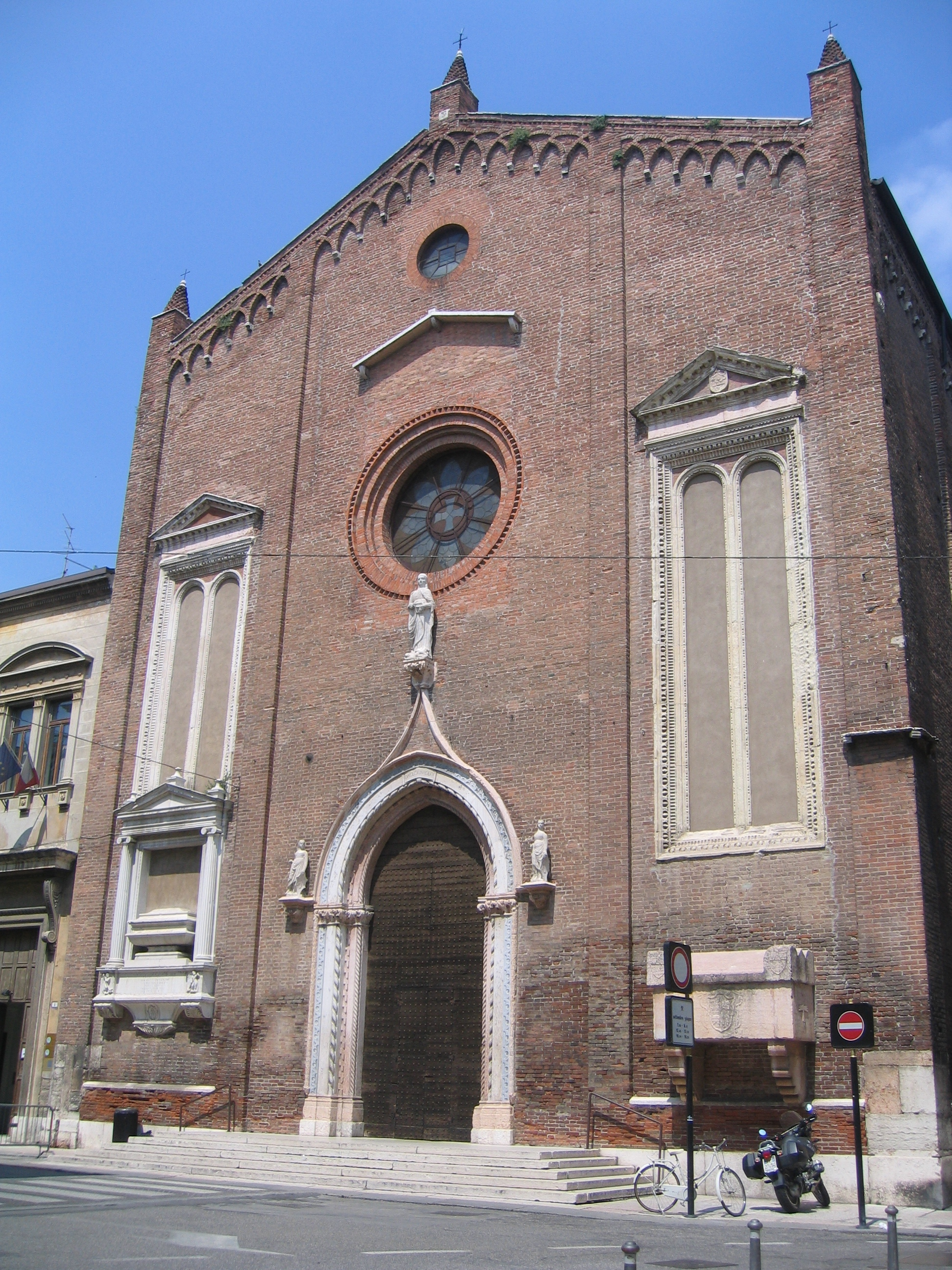 Santa Eufemia Church in Verona